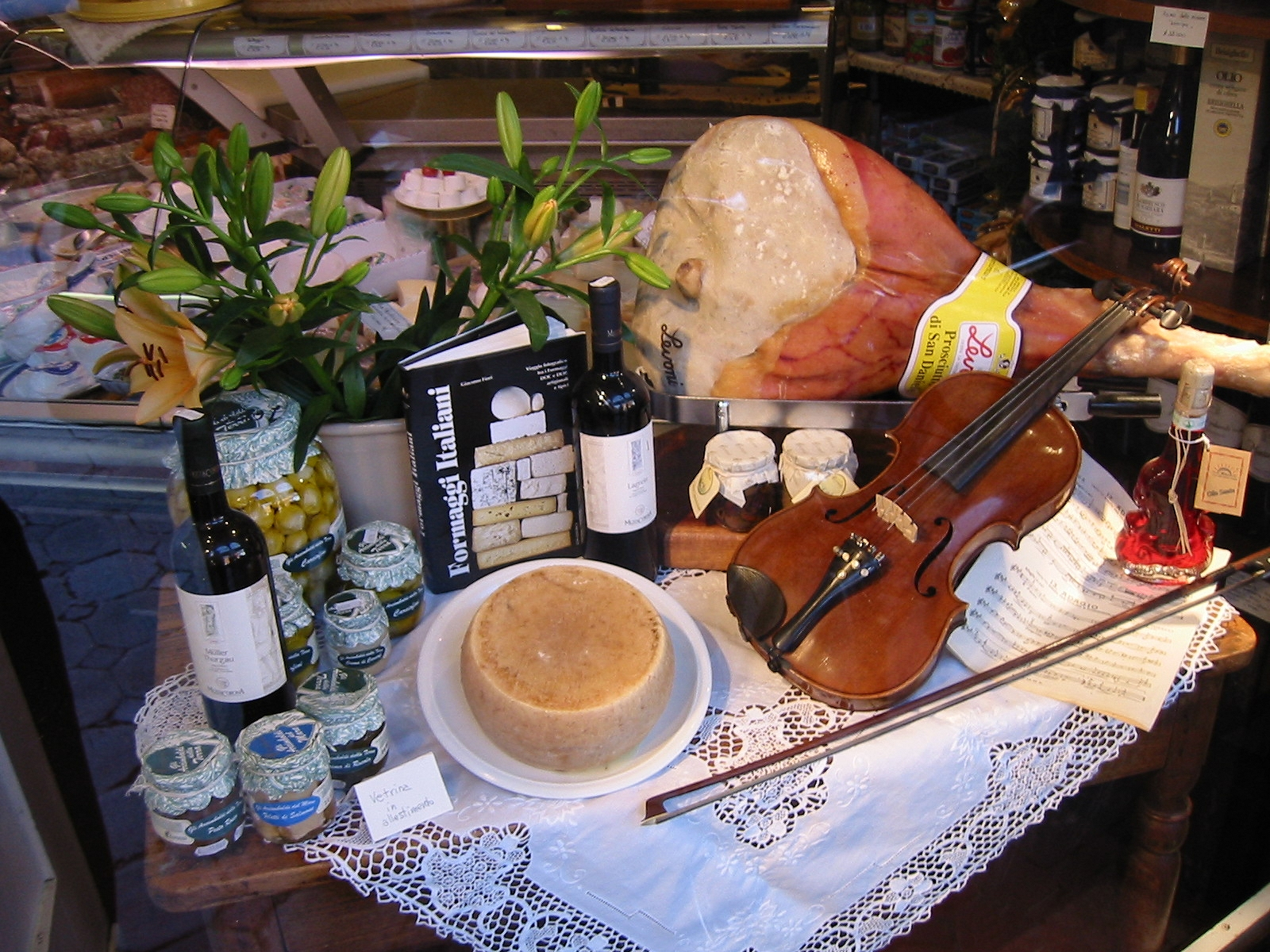 A window display of a grocery in the italian city of Imola.